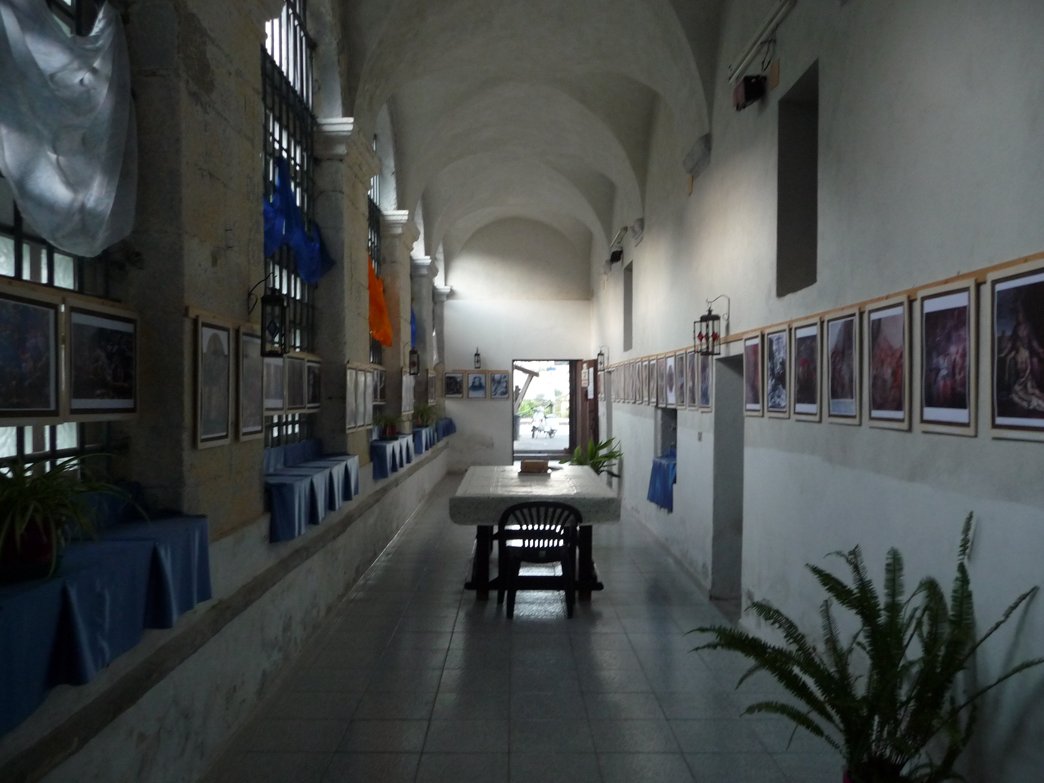 paint of Francesco Cozza in Stilo (2008)